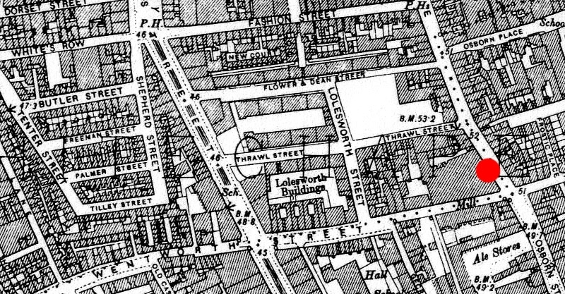 1894 ordnance survey map of Whitechapel showing the area around Spitalfields where many common lodging-houses were situated in the late Victorian era. Red circle indicates the location at the junction of Osborn Street and Brick Lane near where Emma Elizabeth Smith (the first Whitechapel murders victim) was attacked. The building to the immediate west of the red circle is a chocolate factory.